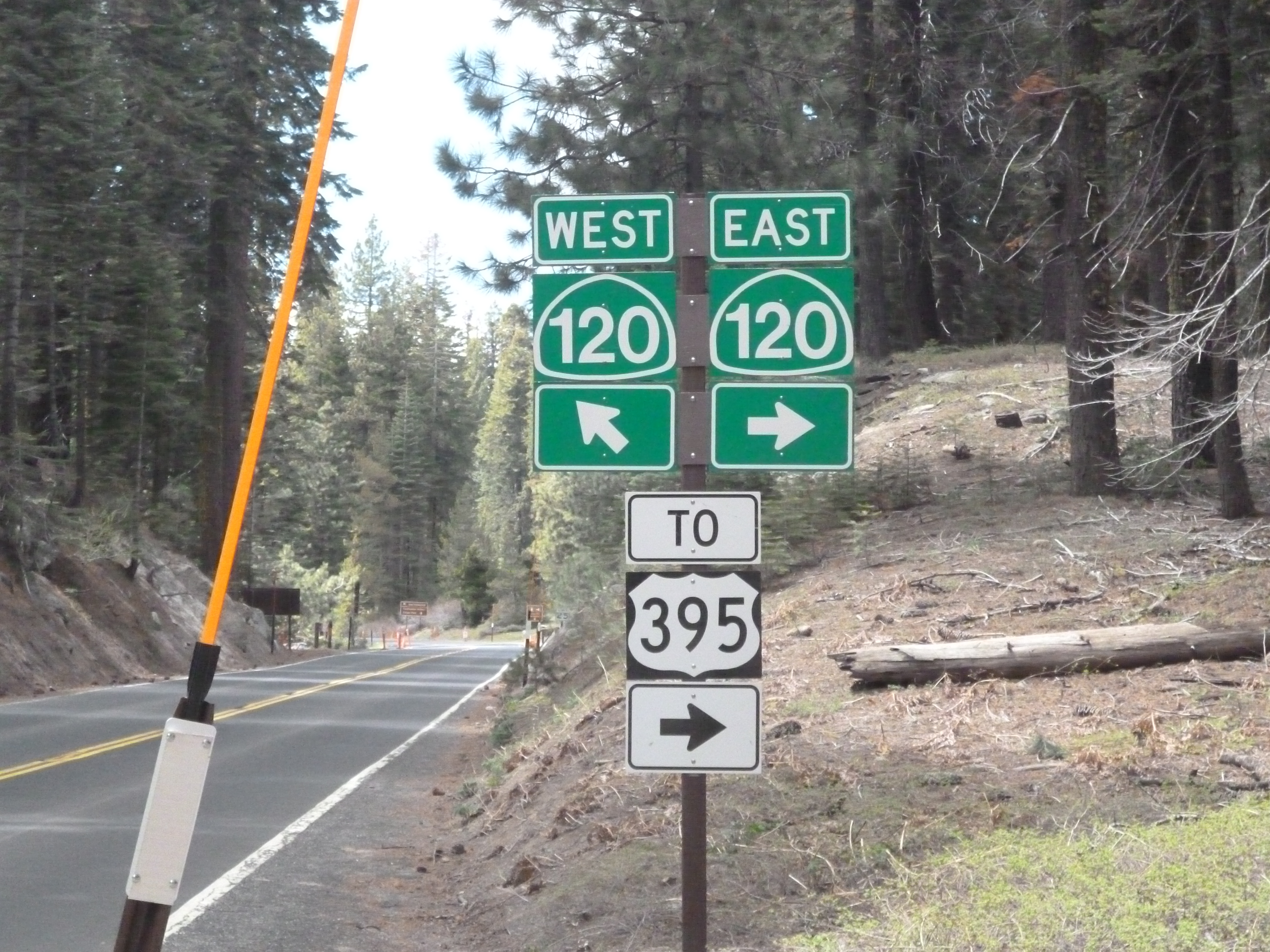 California State Route 120 Markers at Yosemite National Park.